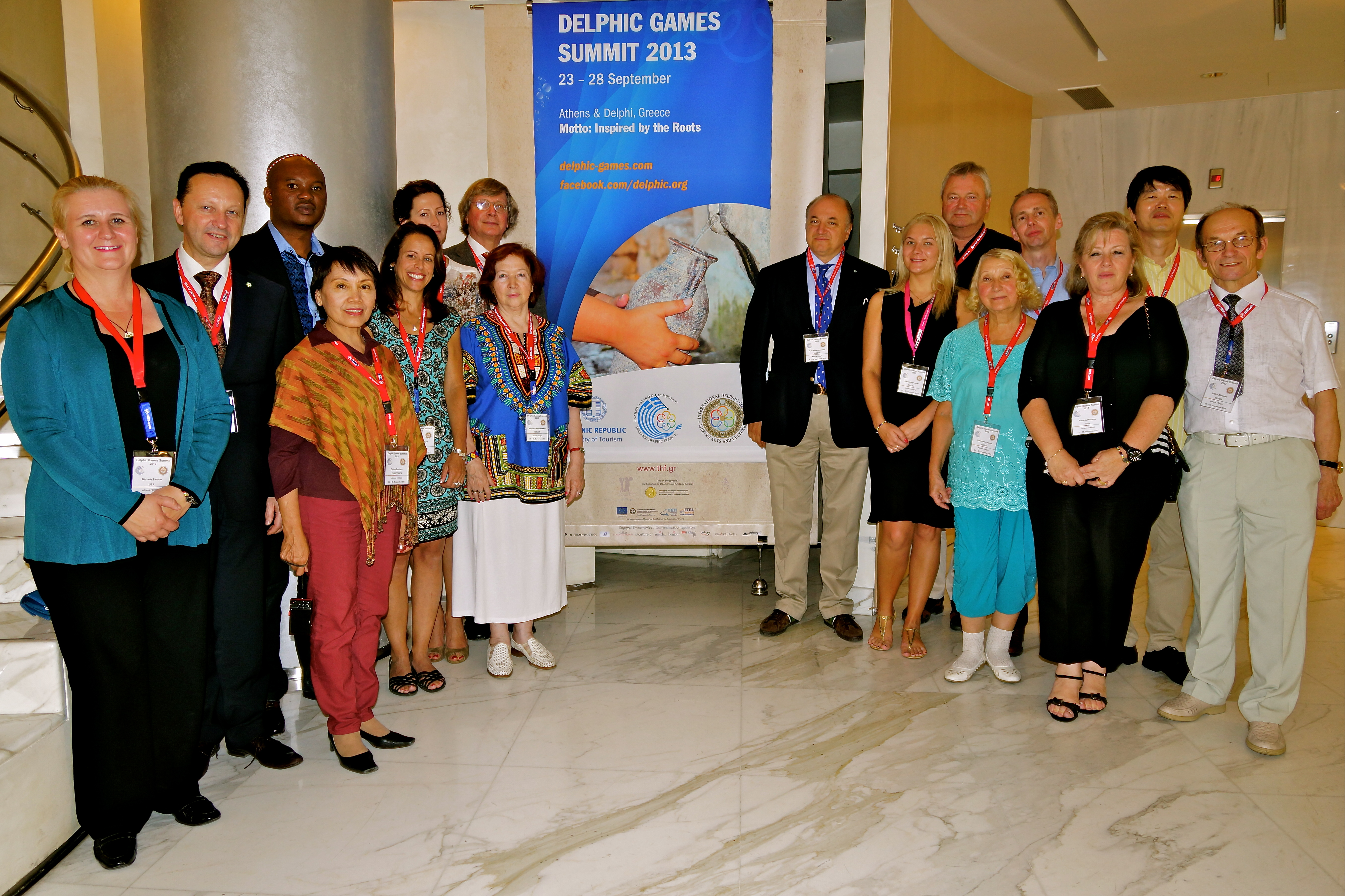 Delphic Summit Athen